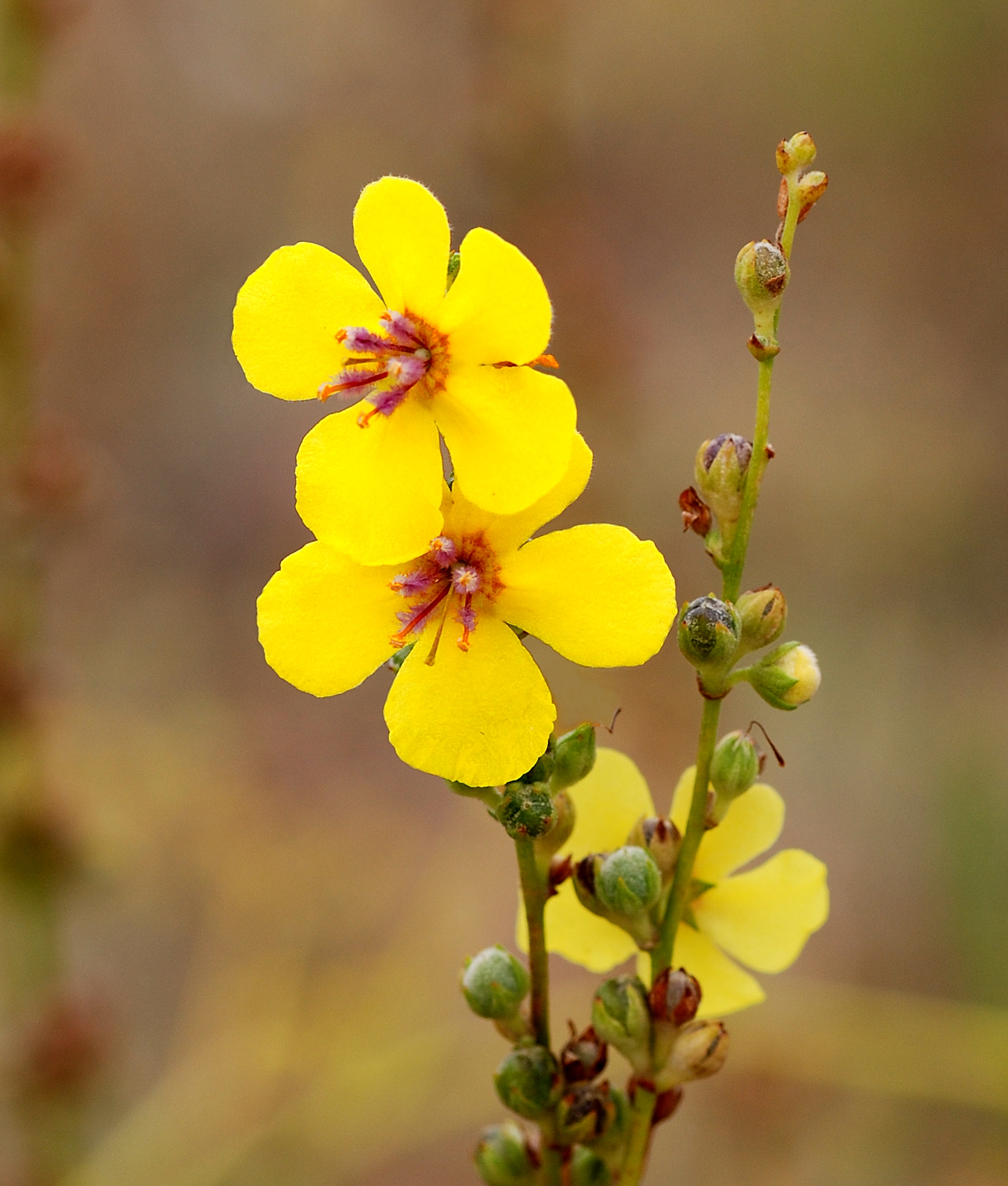 Verbascum sinuatum flowers and buds.